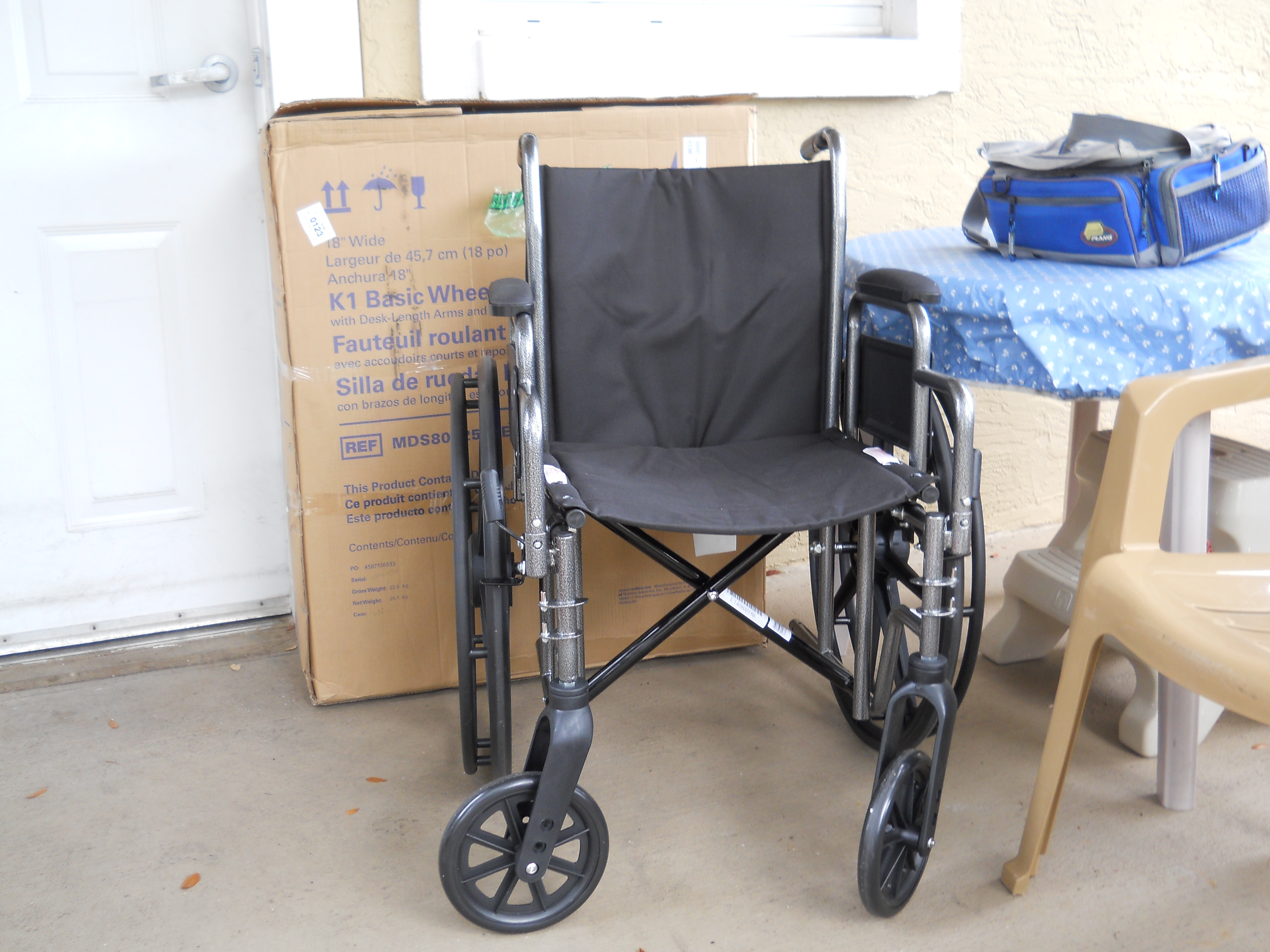 Medline F-1 lightweight manual wheelchair with removable desk-length arm rests. Removal foot rests are not shown